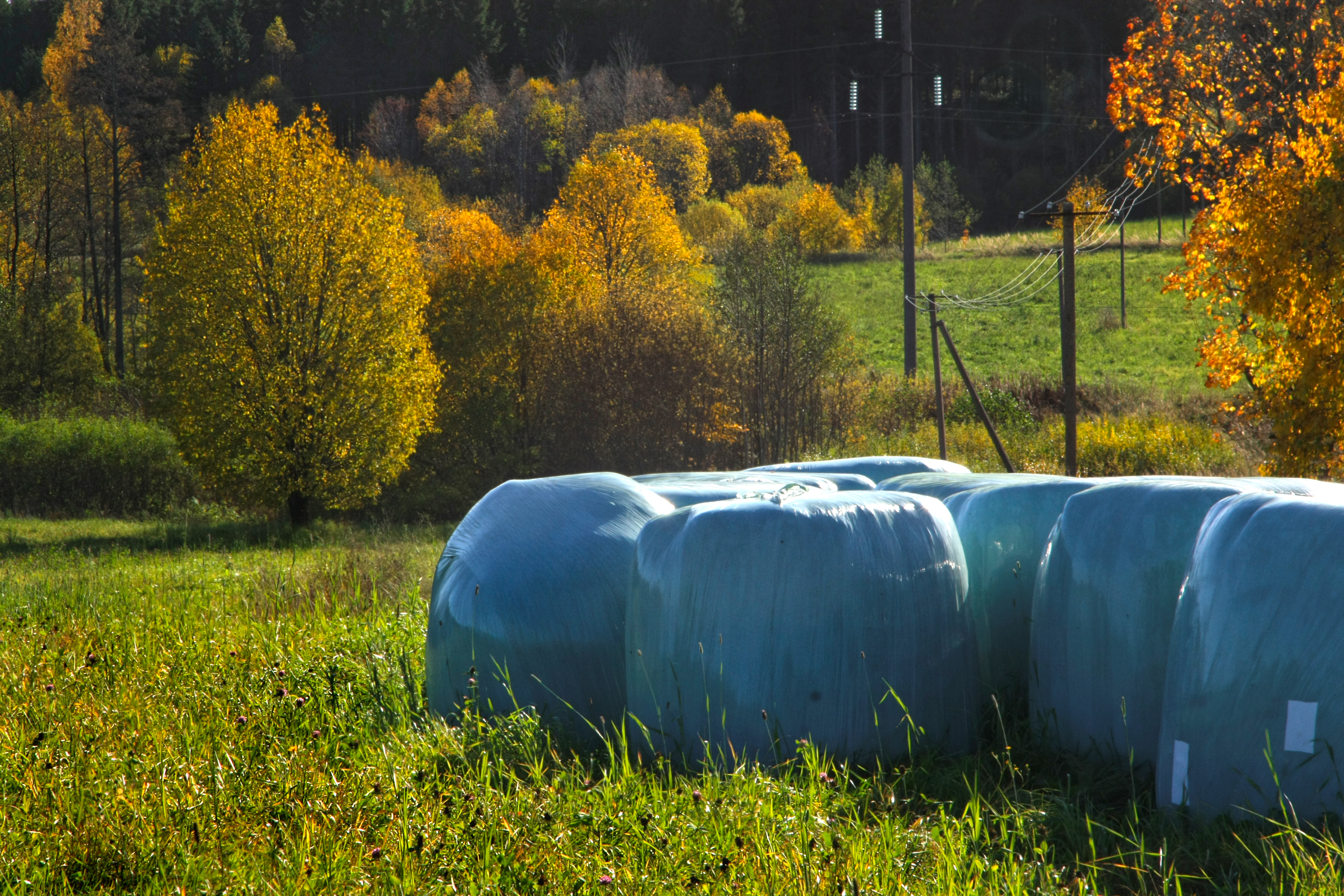 Colorful flowers of clovers in southern Estonia